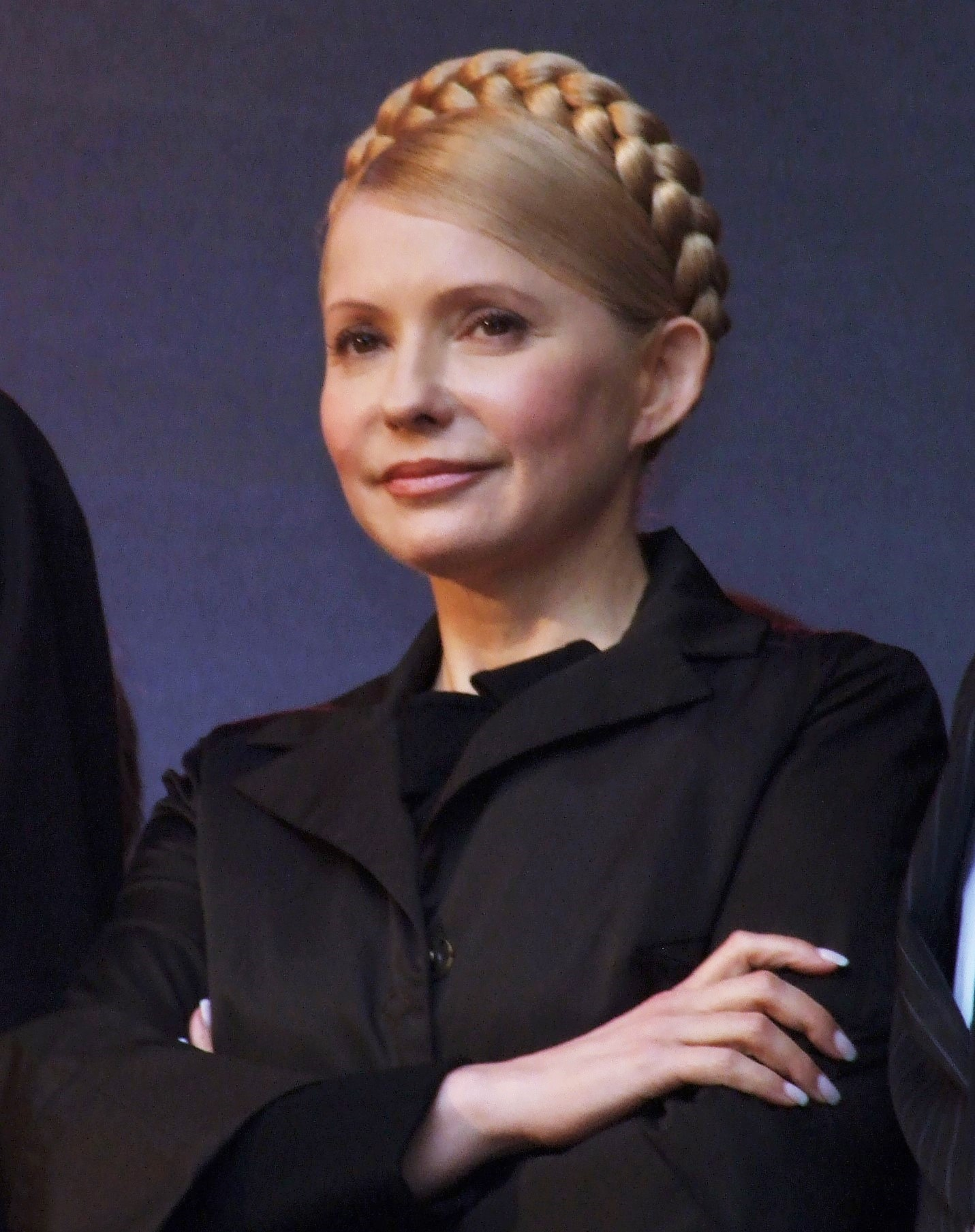 Yulia Tymoshenko in Aachen